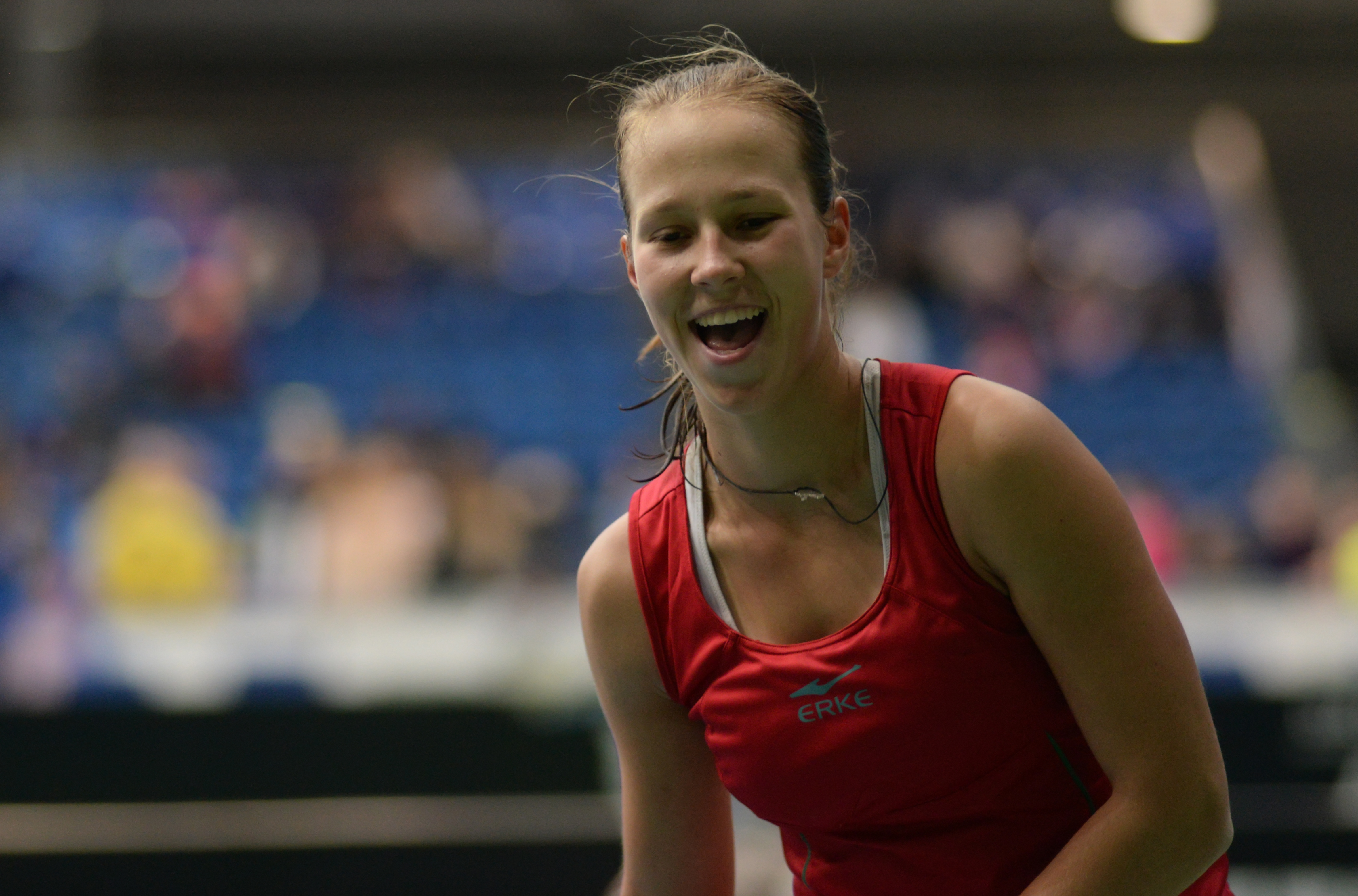 Vera Lapko at the 2015 Fed Cup